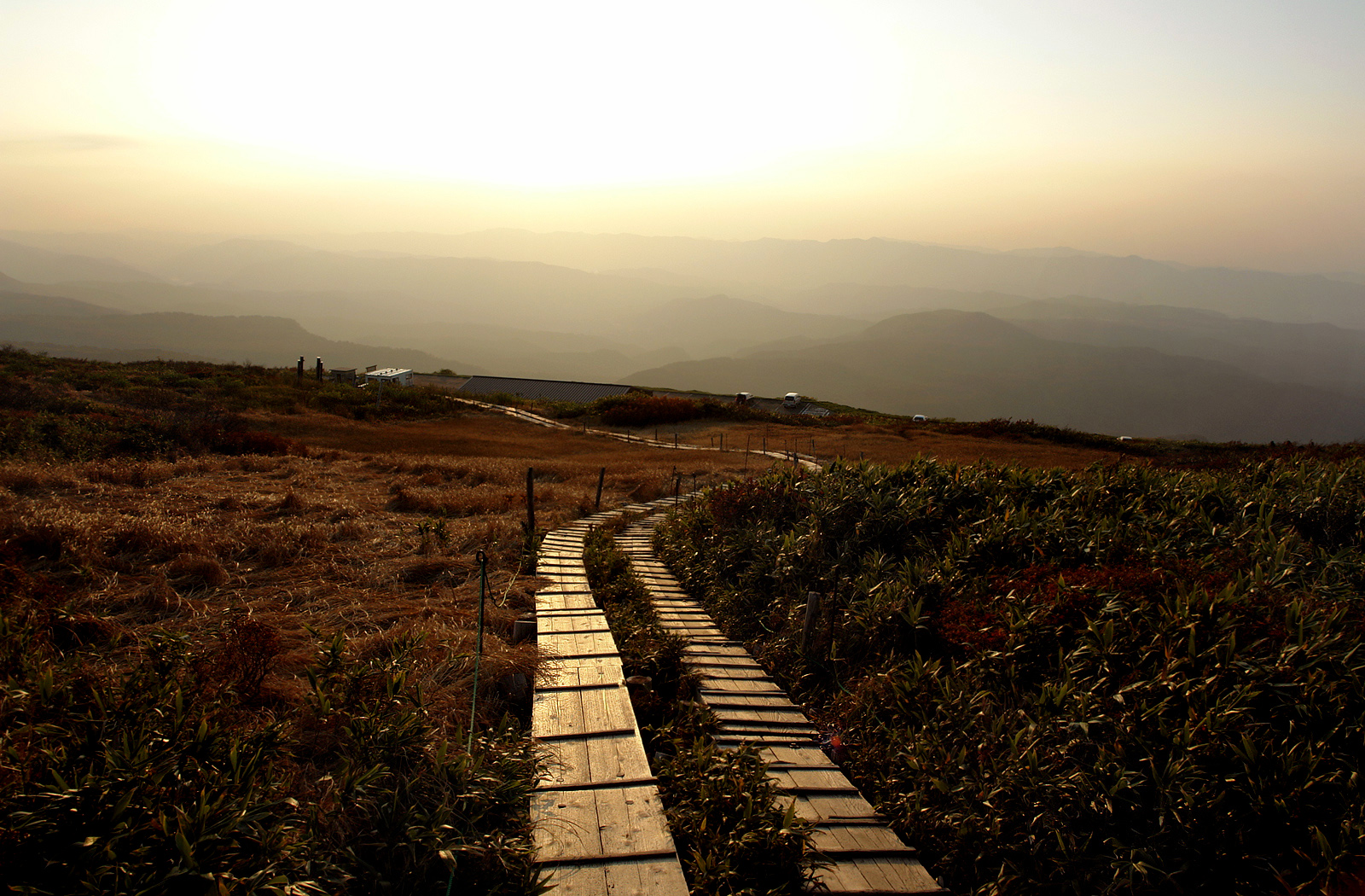 Gassan Bus stop